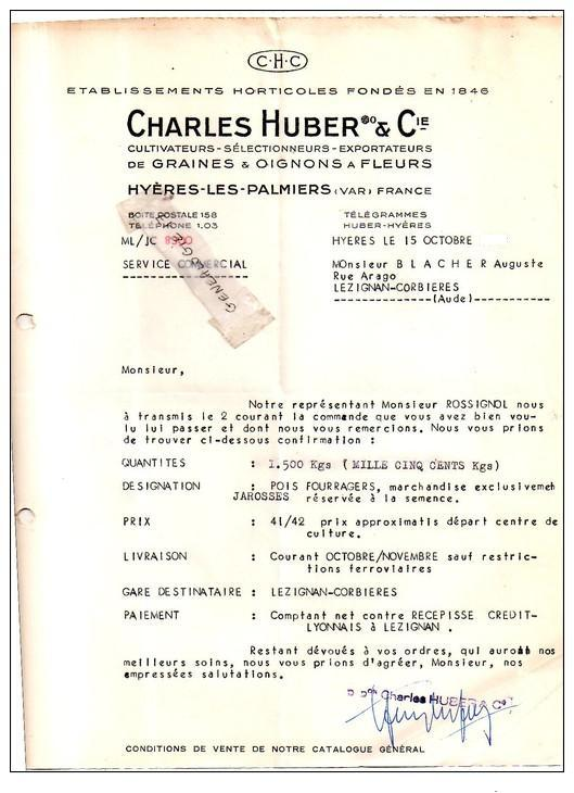 Facture 1856